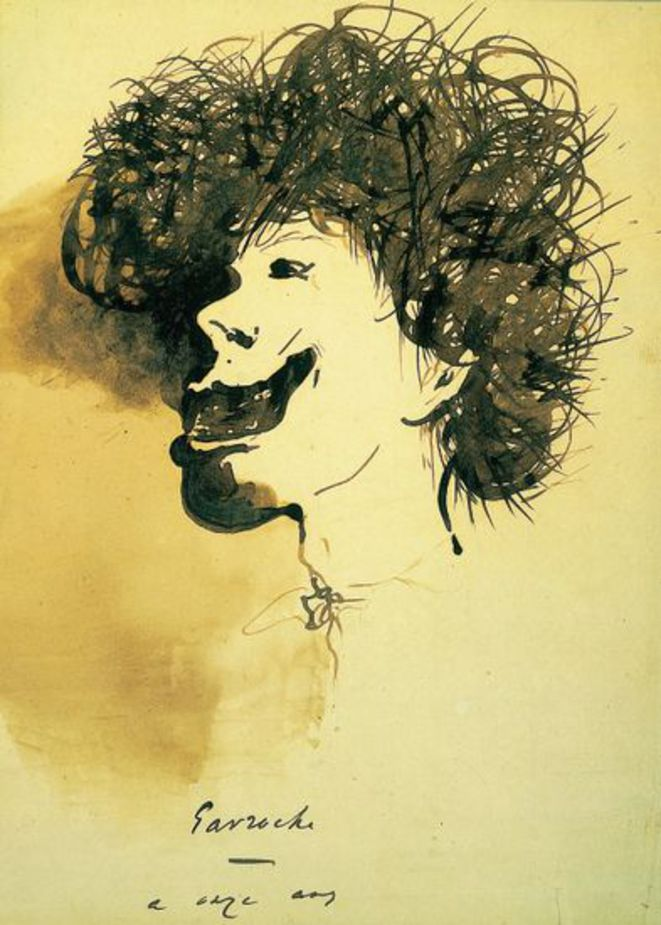 A pen and ink drawing by Victor Hugo, entitled: "Gavroche à 11 ans" ("Gavroche at 11 years old")